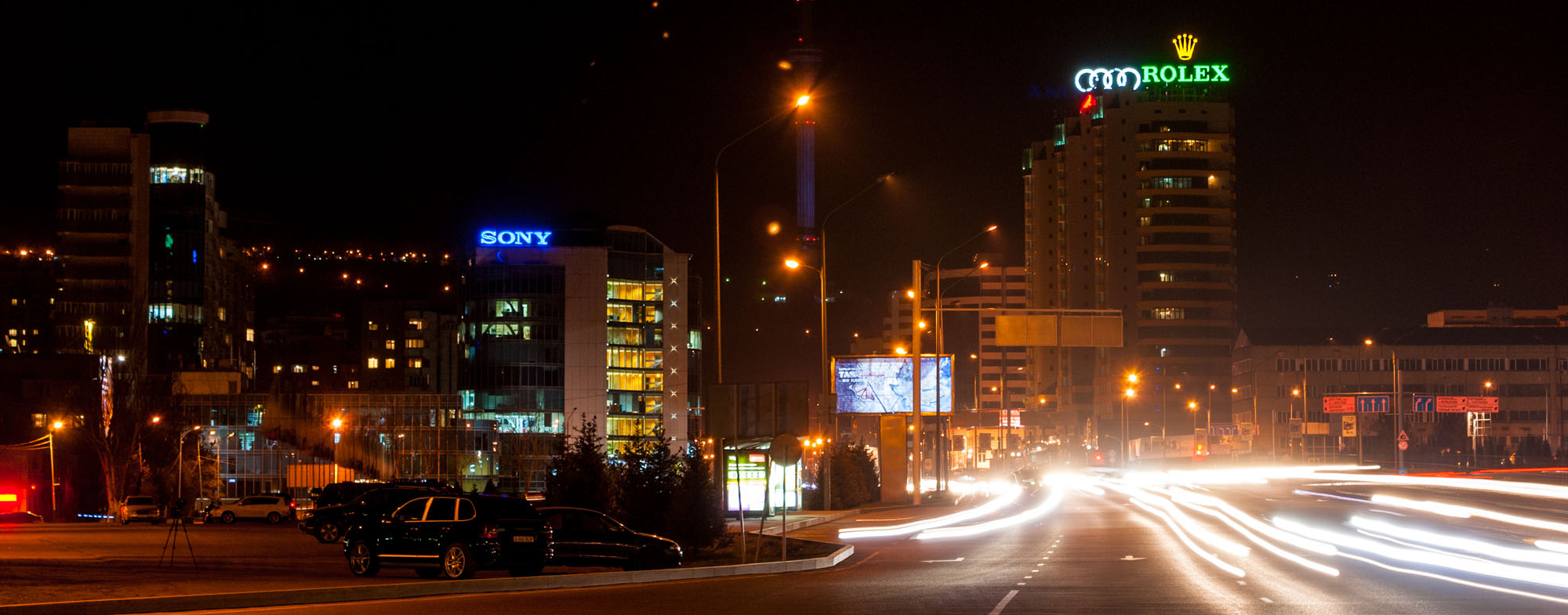 Almaty the largest city in Kazakhstan